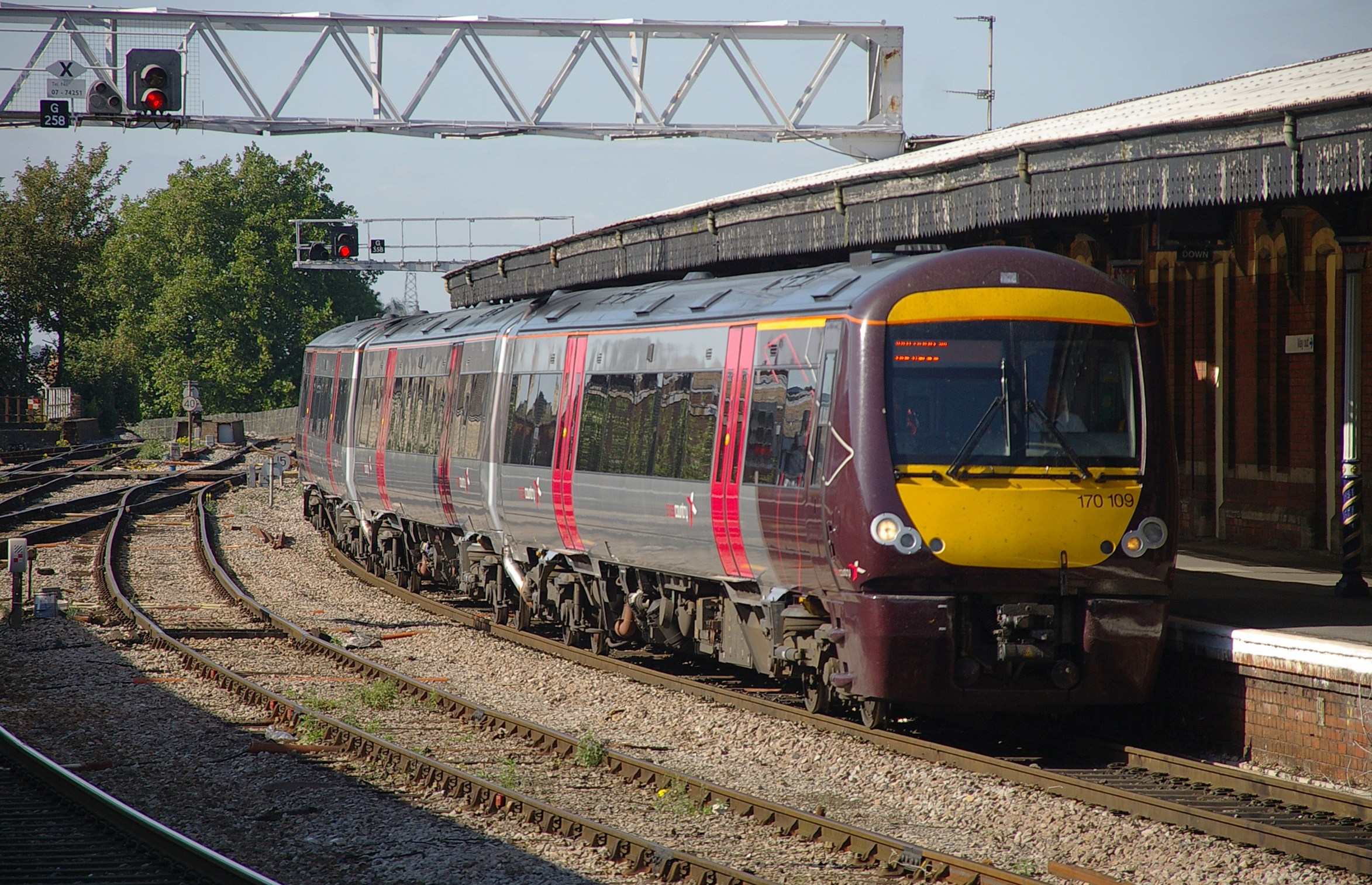 Cross Country 170109 at Gloucester railway station with a service to Nottingham.